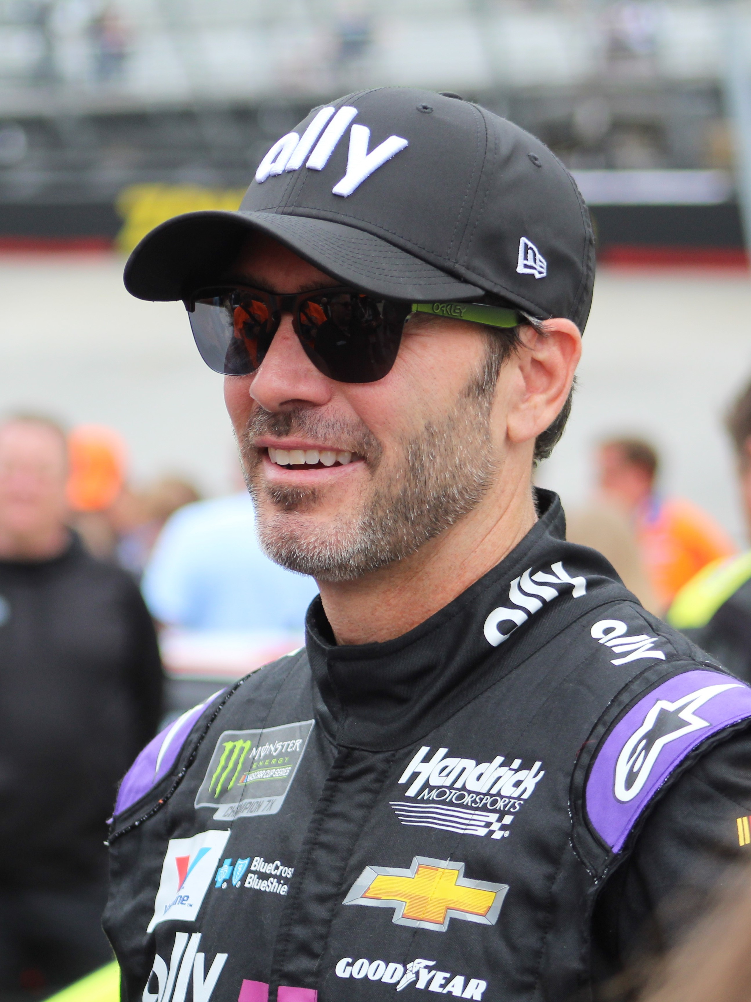 2019 Food City 500